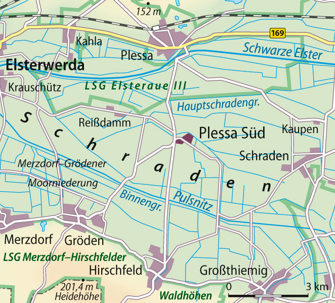 Map of the Schraden, a region in southern Brandenburg, Germany